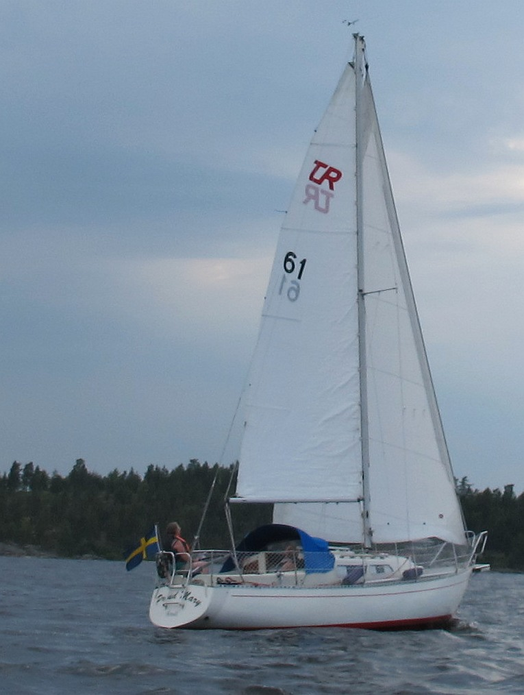 Swedish sailboat type Tur84